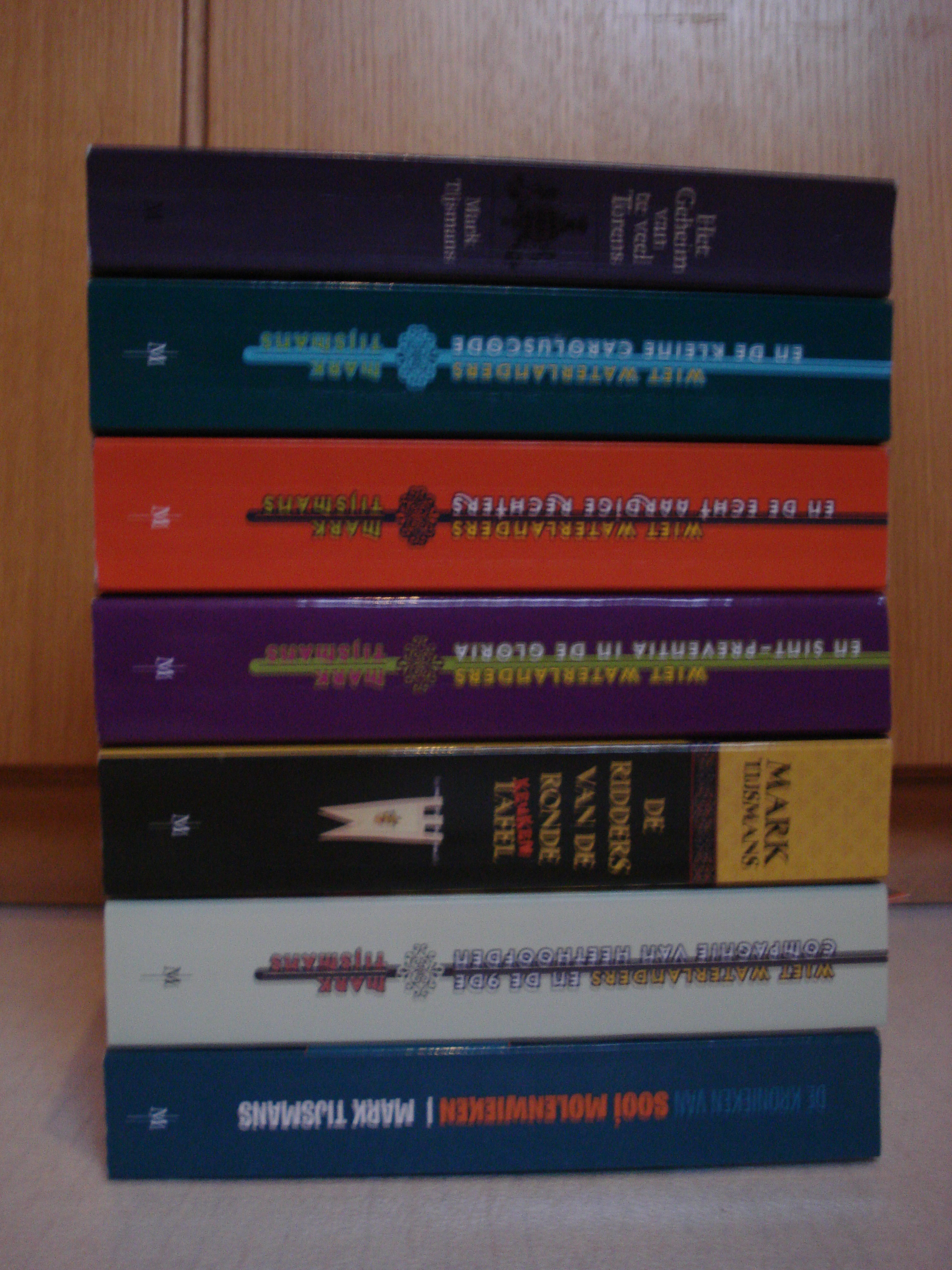 Mark Tijsmans Book Collection 2006-2012